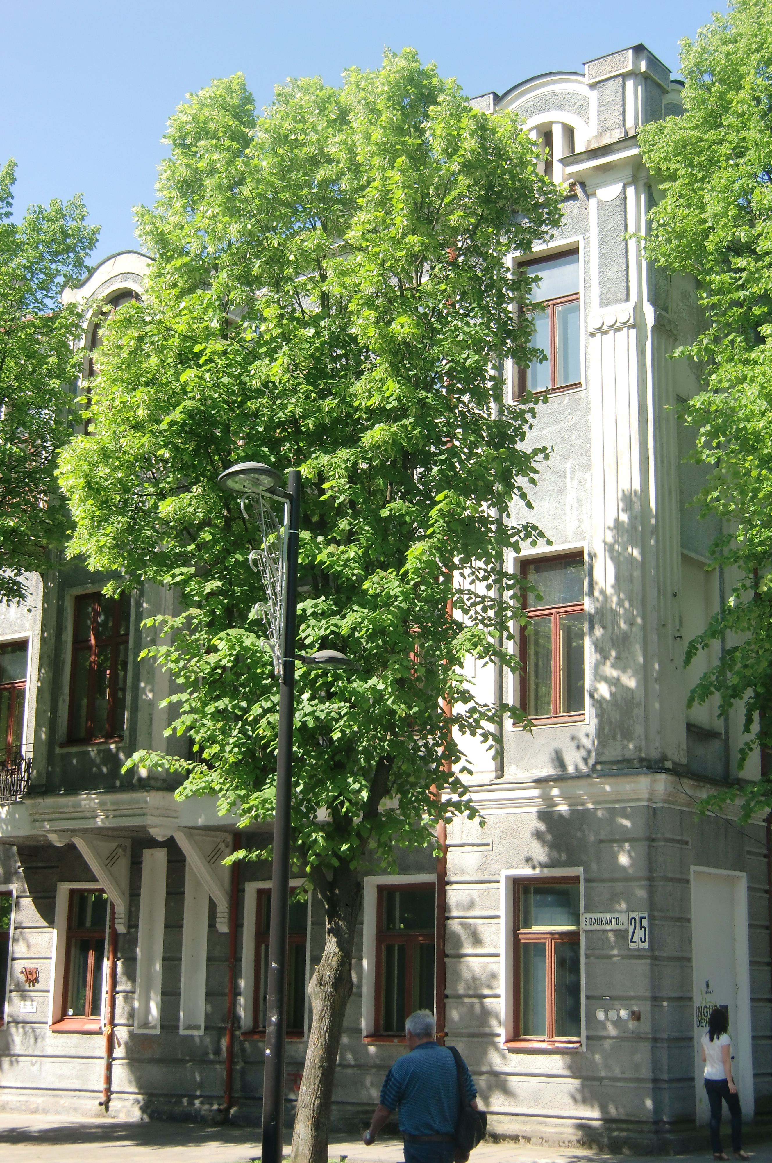 President Valdas Adamkus Library Museum, Kaunas, Lithuania